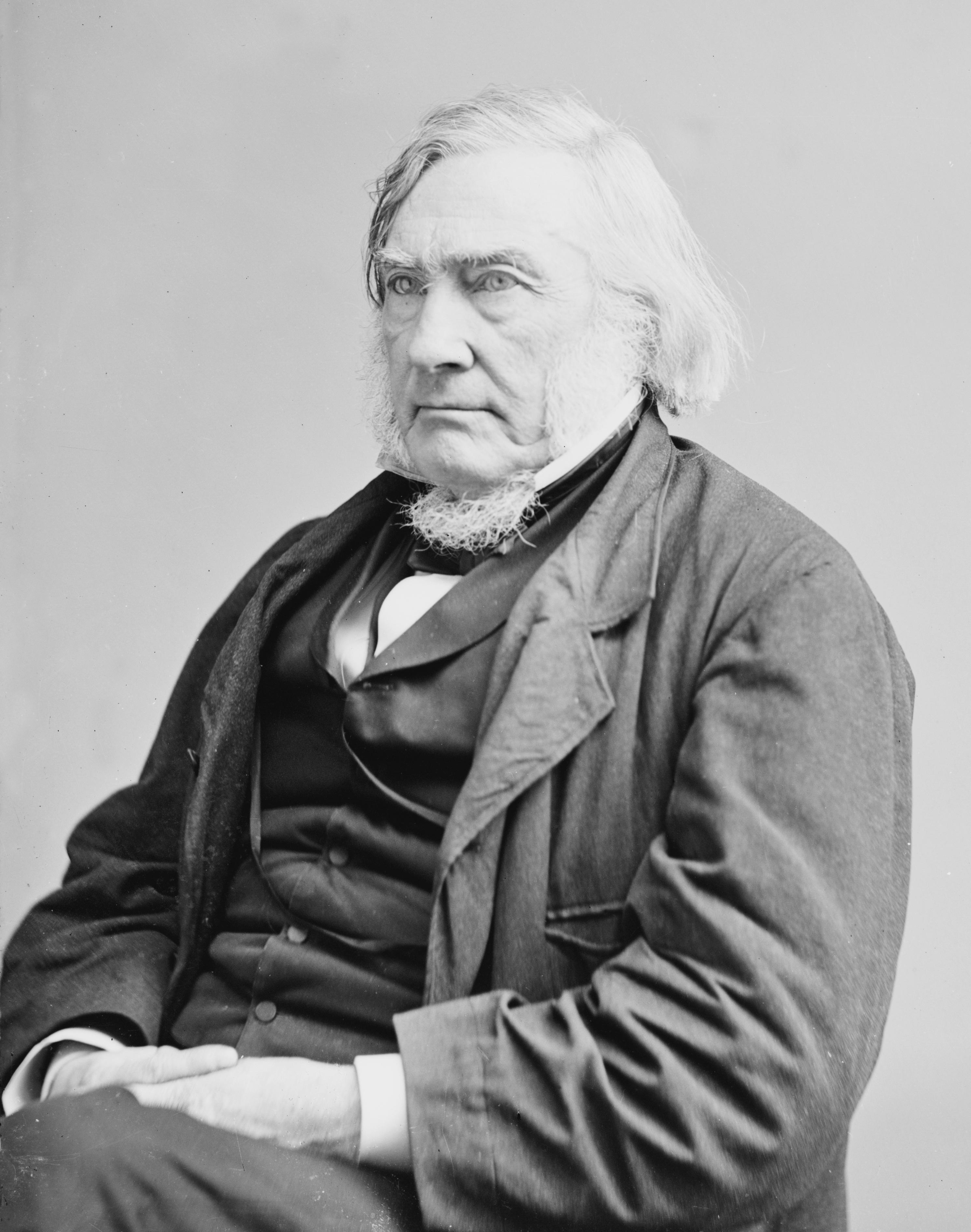 Samuel Nelson. Library of Congress description: "Judge Samuel Nelson".